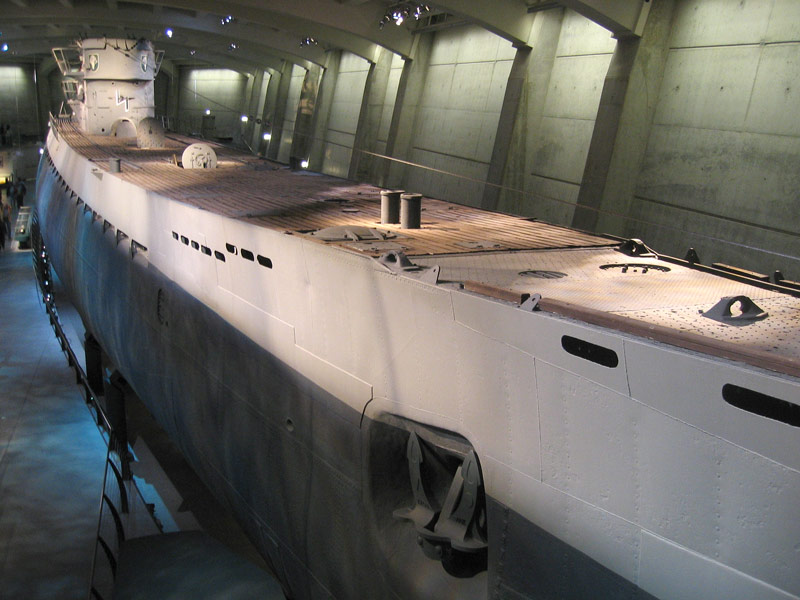 U-505 at the Museum of Science and Industry, Chicago, IL. October 2005.